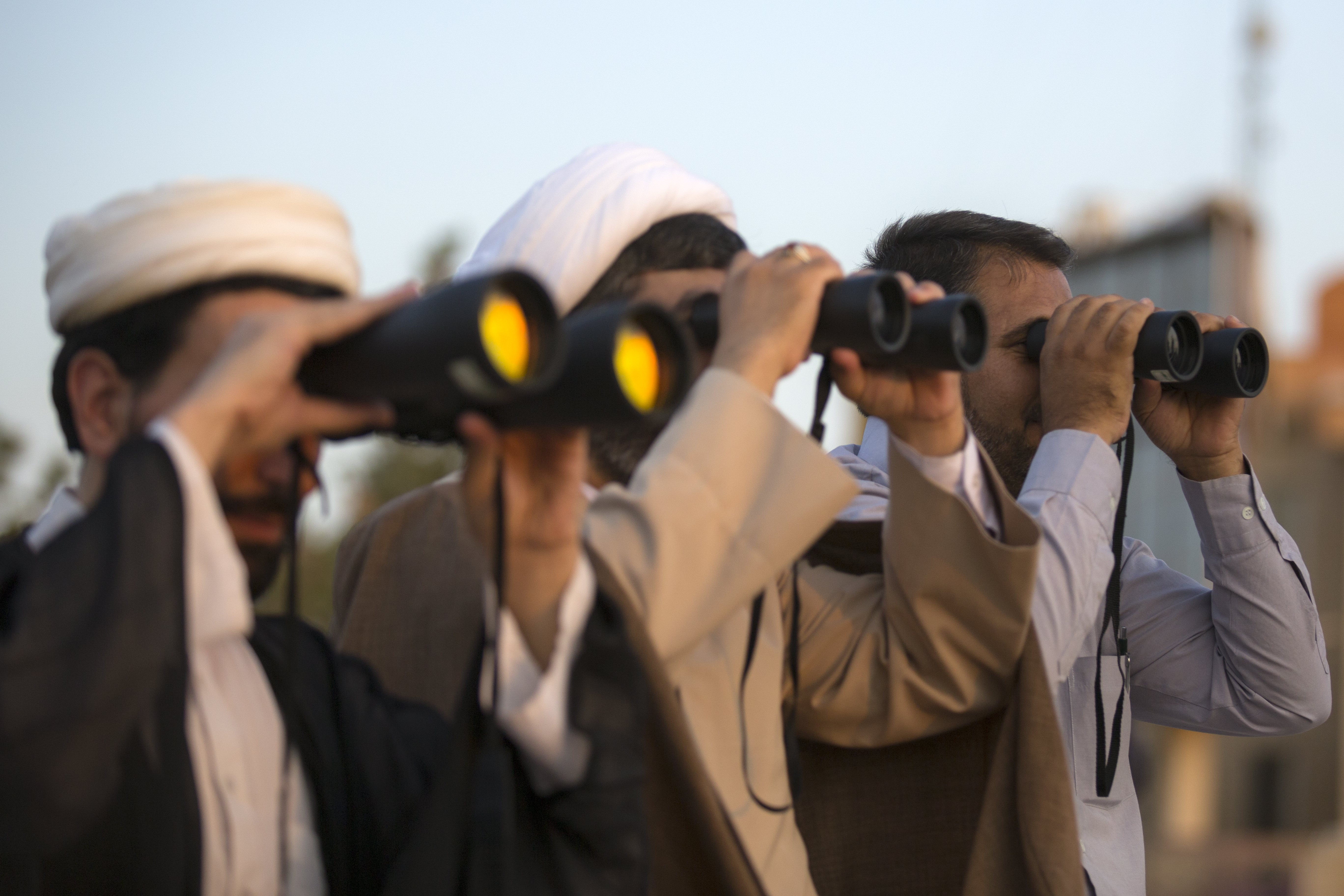 Astronomy (from Greek: ἀστρονομία) is a natural science that studies celestial objects and phenomena. Žemaitėška: Astruonuomėjė (gr. astron - žvaiždie, nomos - diesnės) - muokslos, apėmontės reiškėniū, esontiū ož Žemės ė anuos atmuosperas, stebiejėma ė aiškėnėma. Zeêuws: De astronomie of staerrekunde ou zen eihen bezig mie 't bekieken en verklaeren van diengen buut'n de atmosfeêr. ייִדיש: אַסטראָנאָמיע איז די וויסנשאפט וואס באהאנדלט איבער די הימלען באַװעגונגען, און אַלעס װעגן אַנטװיקלונגען אַרום אונדזער װעלט ו.צ.ב די זון מיט דער לבֿנה, שטערן און אַלע הימל געשעענישן. Xitsonga: Dyondzo ya tinyeleti (kusukela eka Xigriki: αστρονομία ) i sayensi leyi lavisisaka hi ta tinyeleti ta tilo na swilo leswinge matilweni. Wolof: Saytubiddiw mooy xam-xam biy xool aka saytu biddiw yi, di jéem a faramface ak a leeral seen melokaan ci jëmm ak ci simi, seenug magg ak seen cosaan. Ido: فلکیات قُدرتی علوم کی ایک ایسی مخصُوص شاخ ہے جس میں اجرامِ فلکی (مثلاً، چاند، سیارے، ستارے، سحابیے، کہکشاں، وغیرہ) اور زمینی کرۂ ہوا کے باہر روُنما ہونے والے واقعات کا مشاہدہ کیا جاتا ہے۔ اِس میں آسمان پر نظر آنے والے اجسام کے آغاز ، ارتقاء اور طبعی و کیمیائی خصوصیات کا مطالعہ بھی کیا جاتا ہے۔ فلکیات کے عالم کو فلکیاتدان کہا جاتا ہے۔ جہاں فلکیات محض اجرامِ فلکی اور دیگر آسمانی اجسام پر غور کرتی ہے، وہاں پوری کائنات کے سالِم علم کو علم الکائنات کہتے ہیں۔ Winaray : It Astronomiya[1] (Griyego: αστρονομία = άστρον + νόμος, astronomia = astron + nomos, kon ha literal, "balaod han mga bituon") amo an siyensya hit fenomena ha kalangitan nga natikang ha gawas han atmosferya han Kalibutan. Walon: L’ astronomeye est l’ syince di l’ observacion des asses, sayant di dner ene esplicåcion so leu skepiaedje, leu manire di candjî, leus prôpietés fizikes et tchimikes.